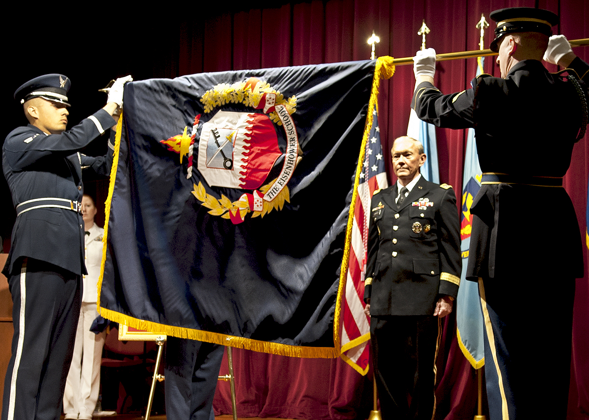 Army Gen. Martin E. Dempsey, chairman of the Joint Chiefs of Staff, watches the uncasing of the Eisenhower School flag during the ceremony to rename the Industrial College of Armed Forces to The Dwight D. Eisenhower School for National Security and Resource Strategy at National Defense University on Fort McNair in Washington, D.C., Sept. 6, 2012.